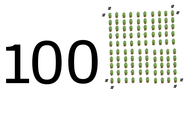 Image licensed under GFDL and made by Javier Carro with GIMP and modified with paint.